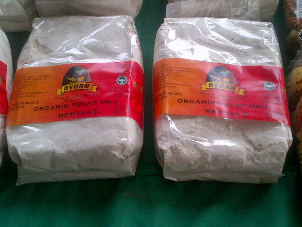 Oat flour (organic) at a food market in Ankara, Turkey.